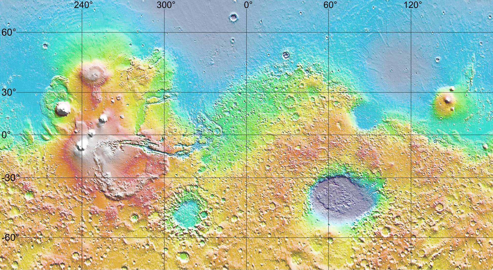 Map of the planet Mars